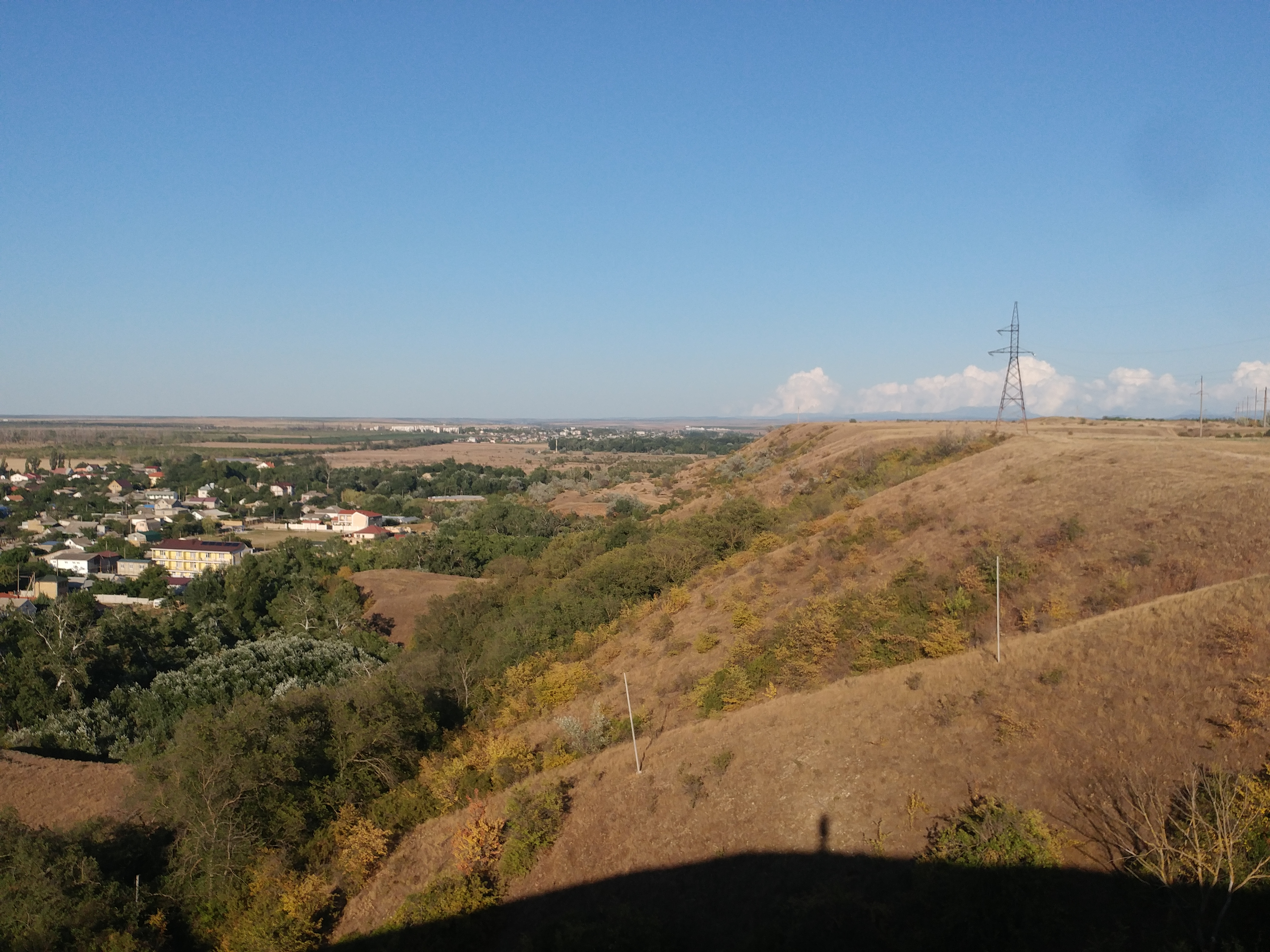 Left bank of the Alma river near Alma Tamak (Песчаное) village.